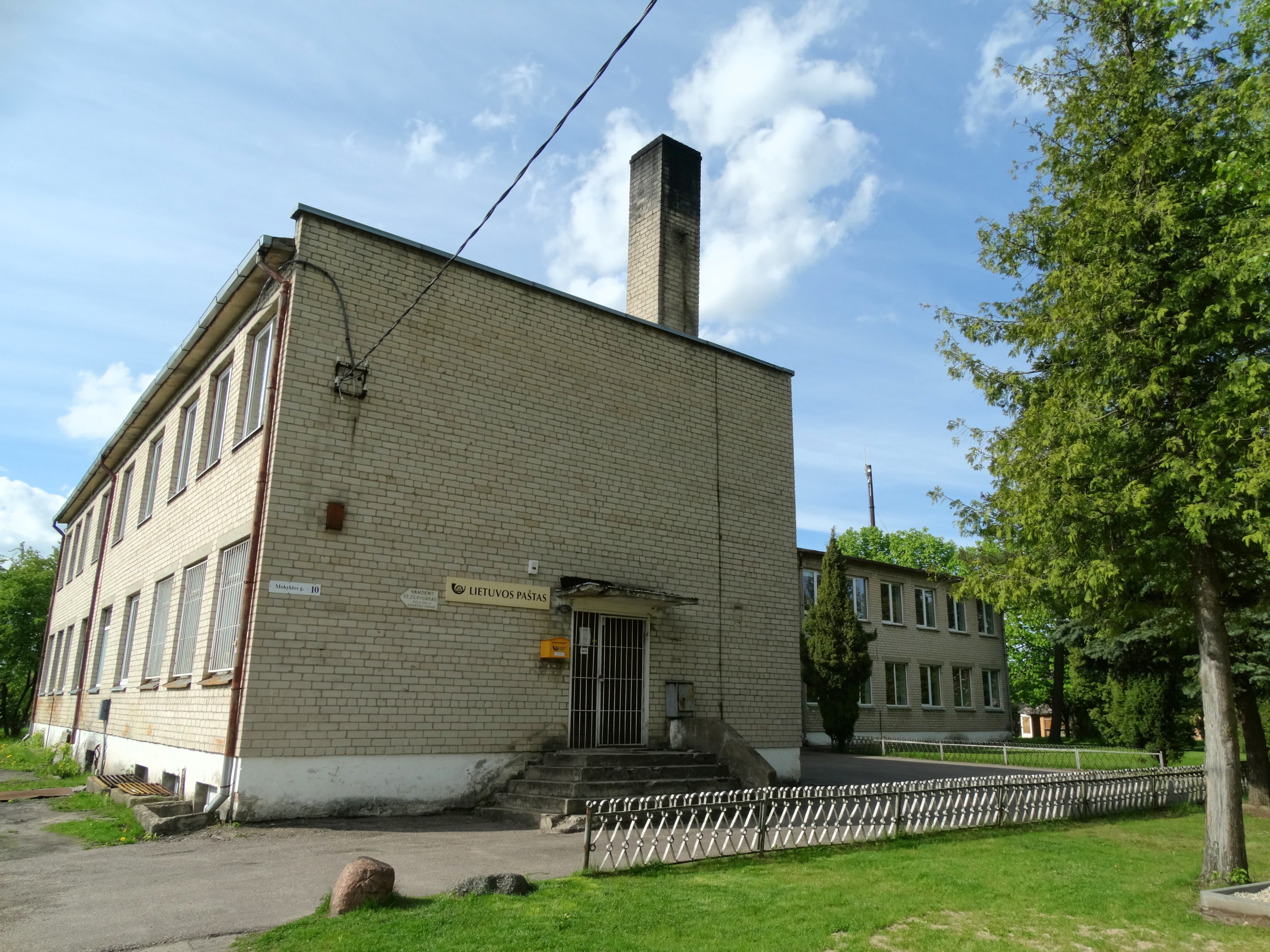 Post office, Dūkštos, Lithuania